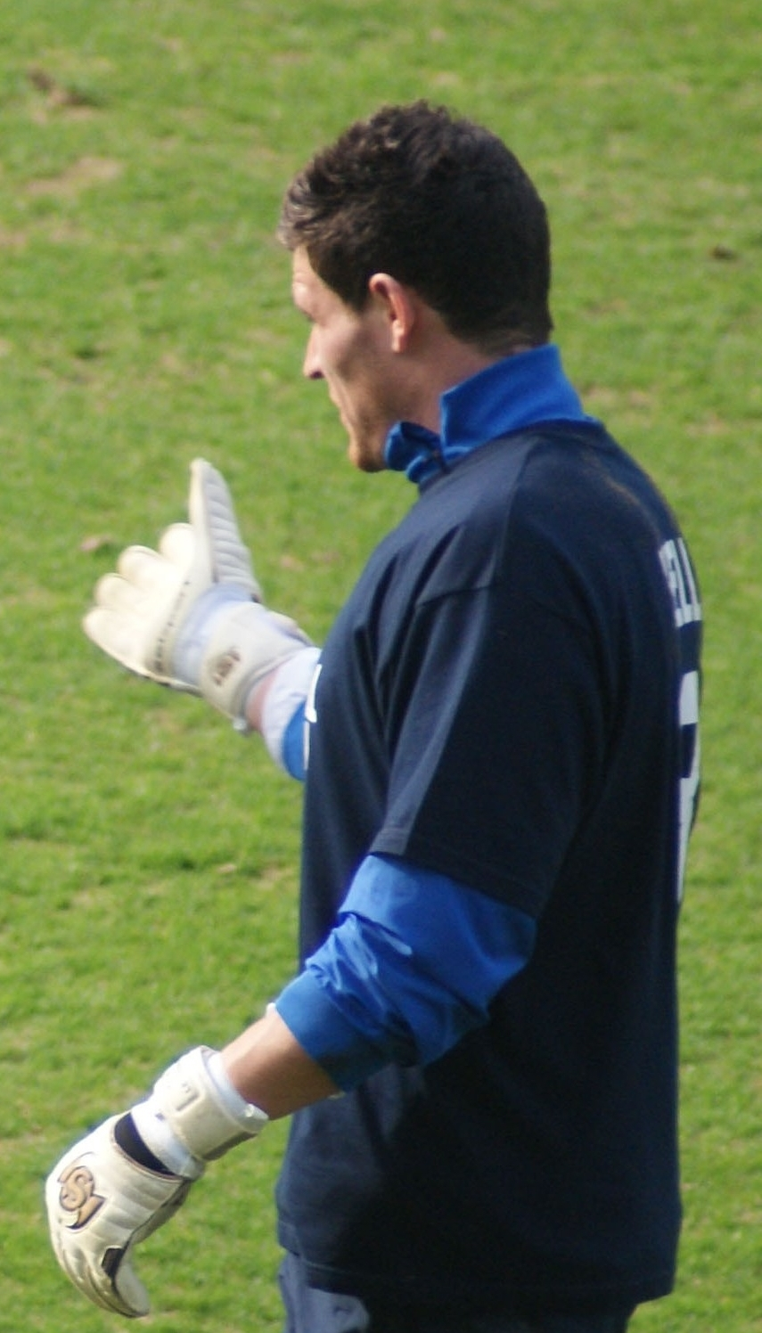 Kyle Letheren warming up for Kilmarnock against Motherwell at Rugby Park, Kilmarnock on 24 March 2012